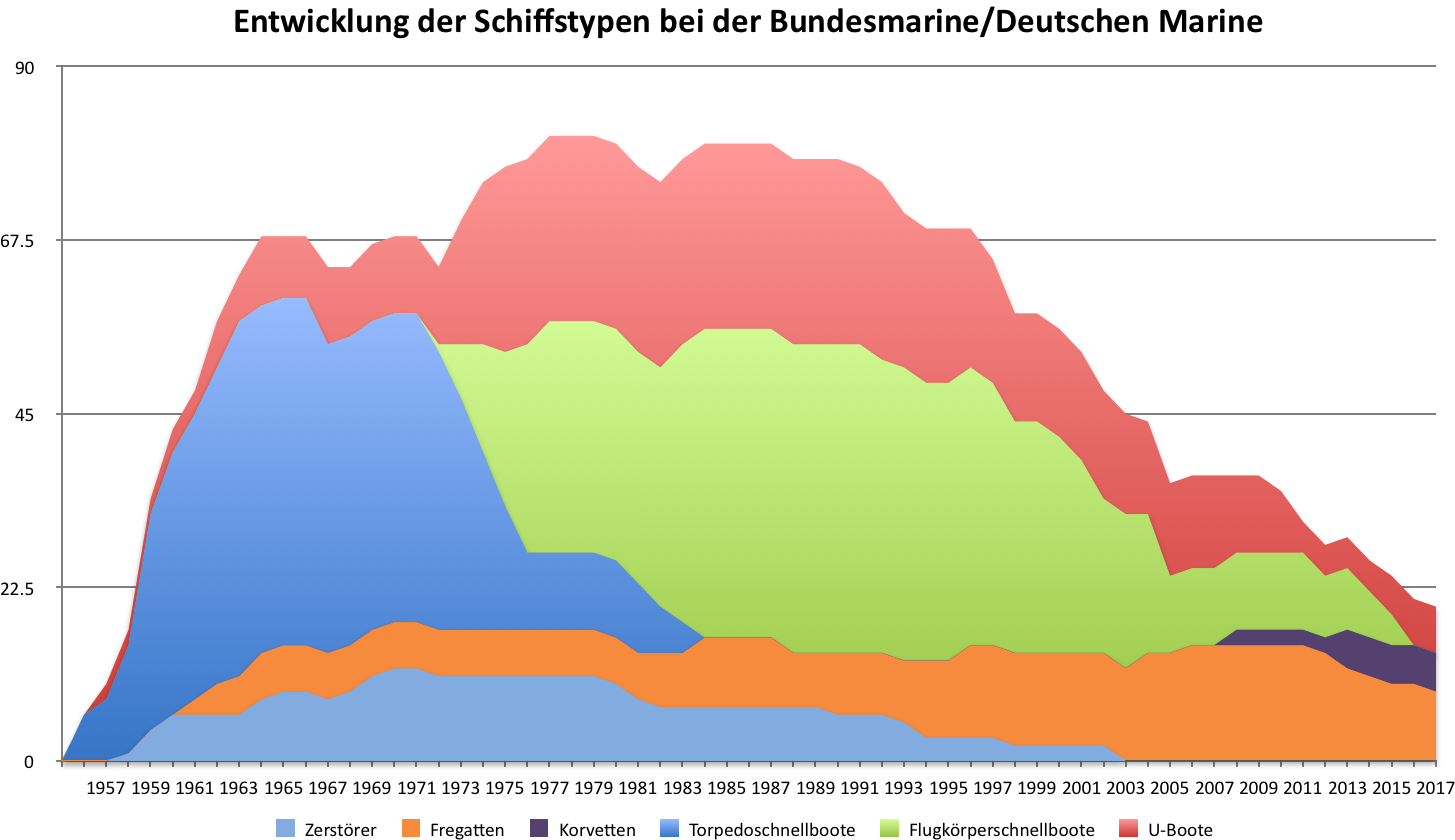 Develepment of the most important ship types in the German Navy since its foundation in 1956. The numbers for each year are for December, 31. Vessels of the East German Navy are not included.